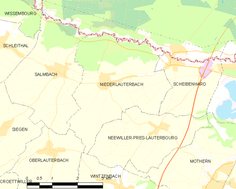 Map of French municipality